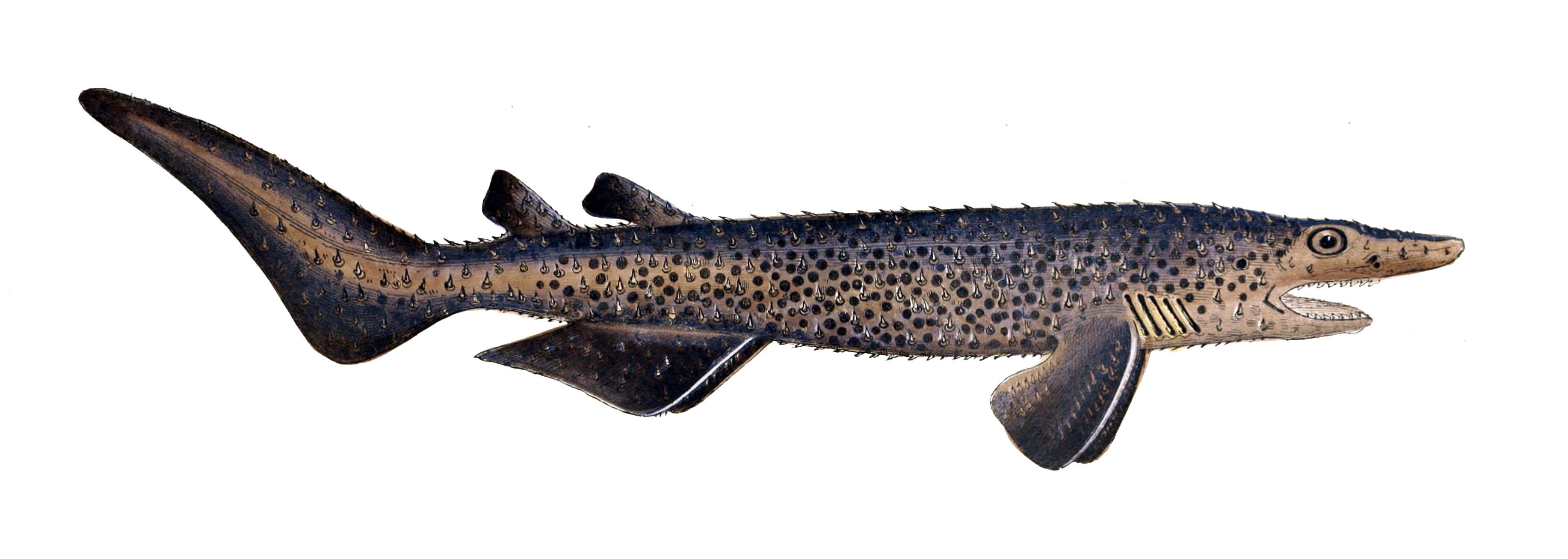 Echinorhinus brucus